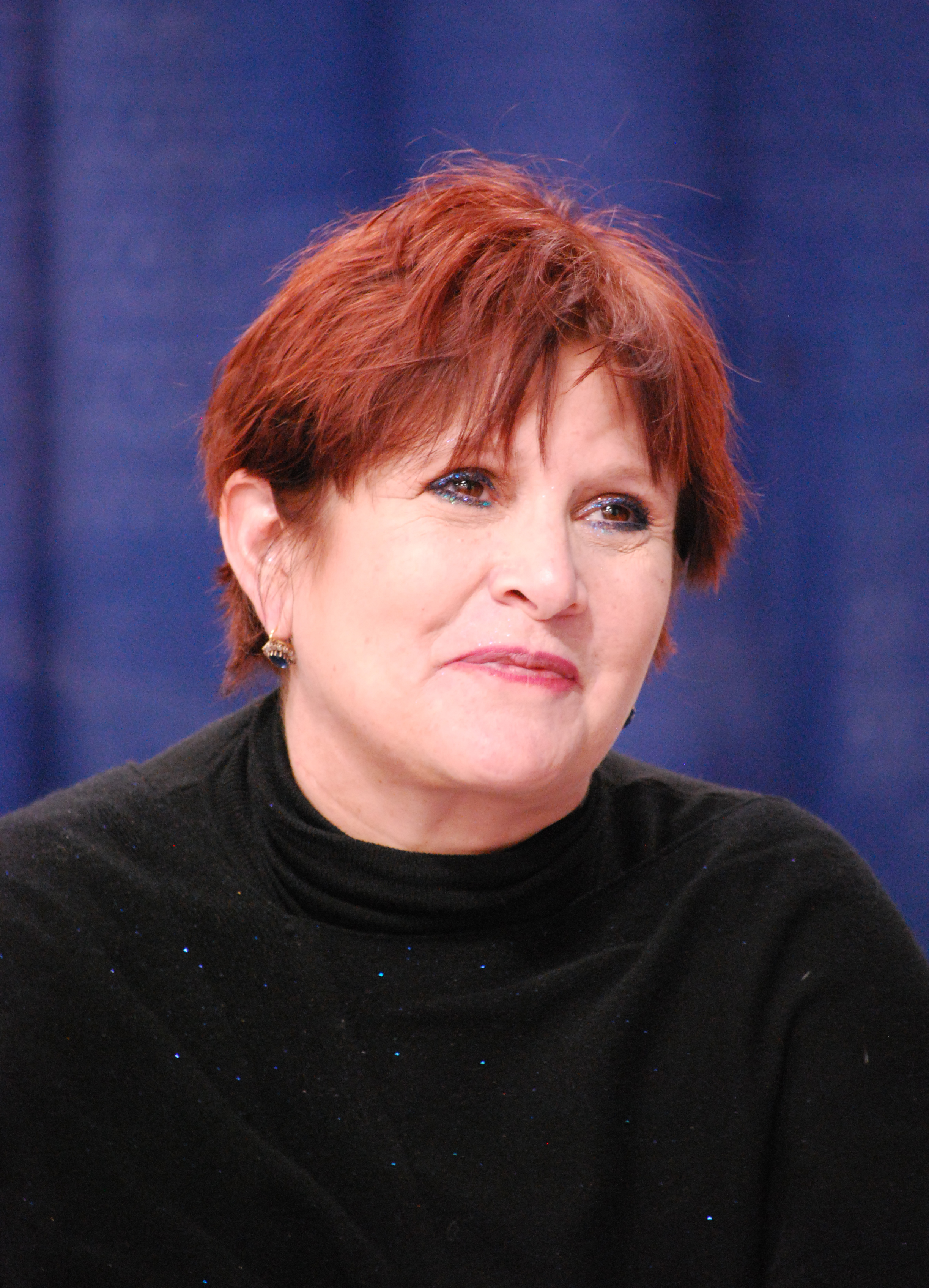 Carrie Fisher at WonderCon 2009.